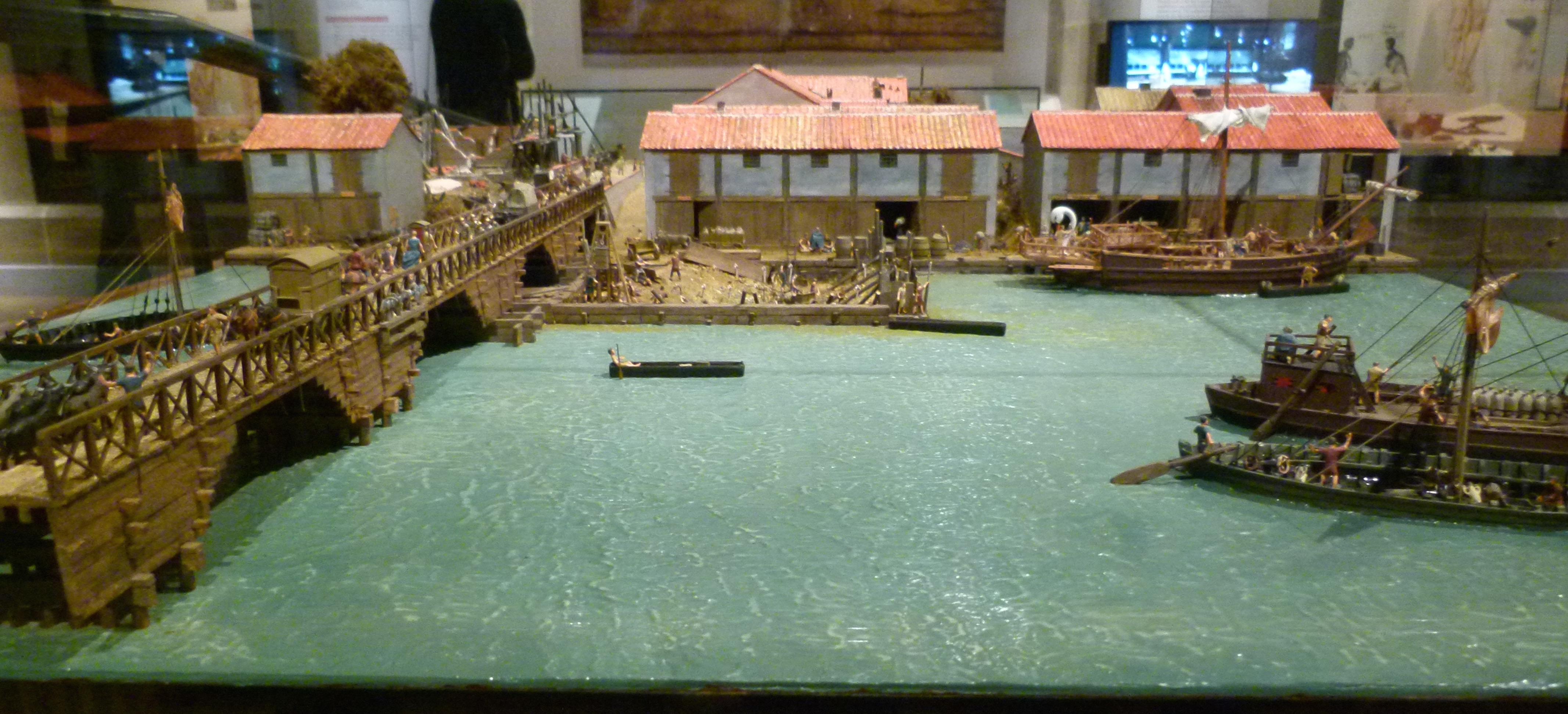 Scale model of the port and bridge of Londinium around 100 AD, Museum of London.